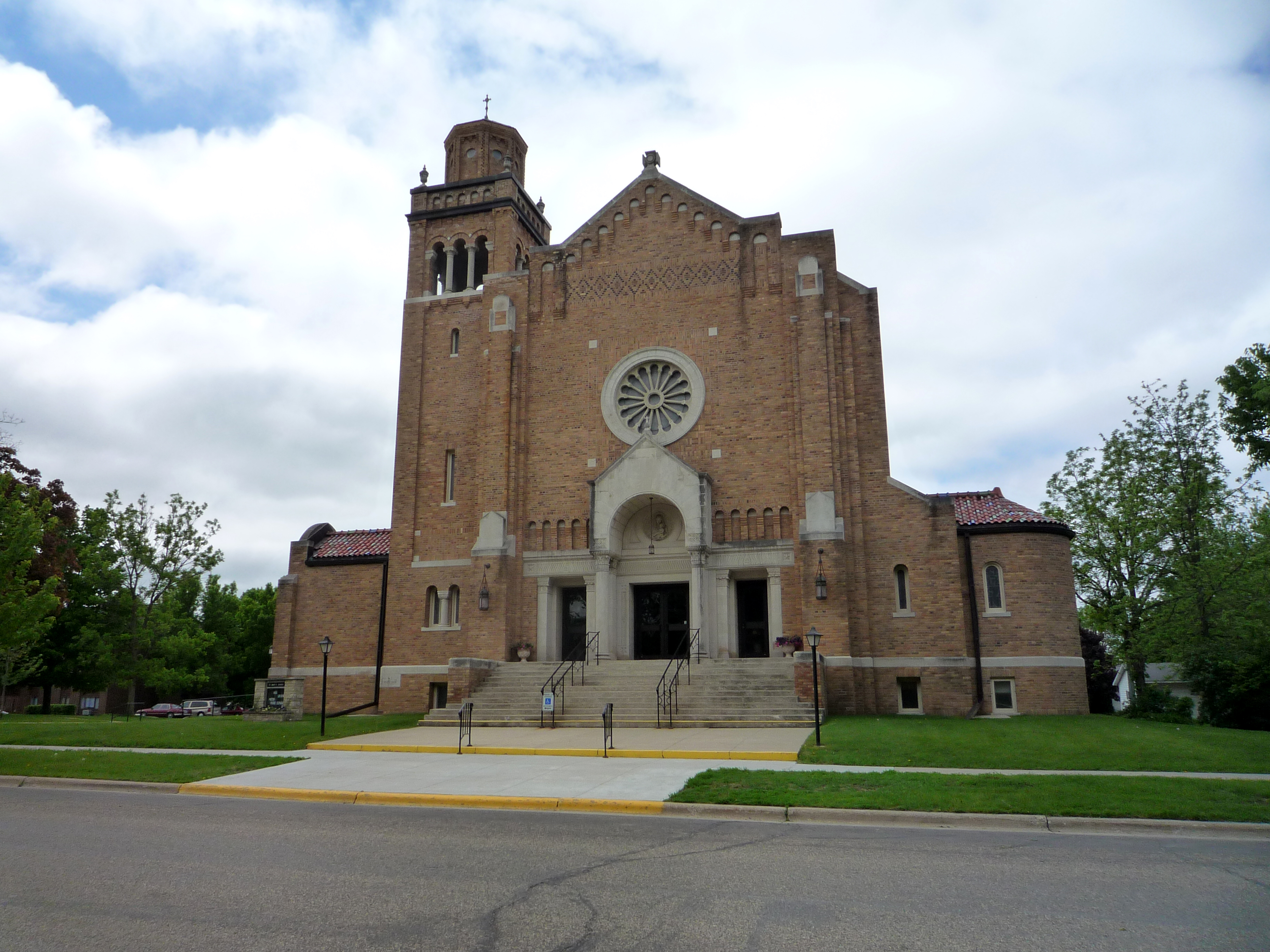 St. Mary's Catholic Church, Chatfield, Minnesota, USA.